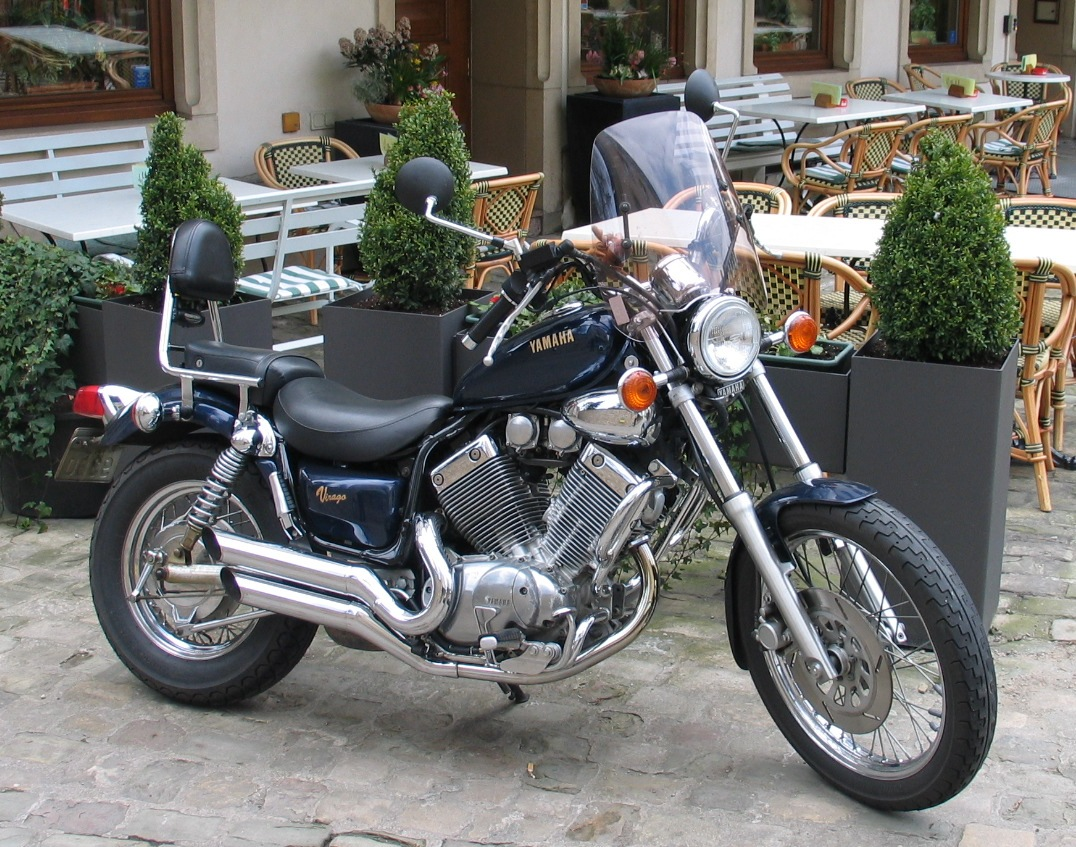 Yamaha Virago; titled as 750 but appears to be the 535 model.